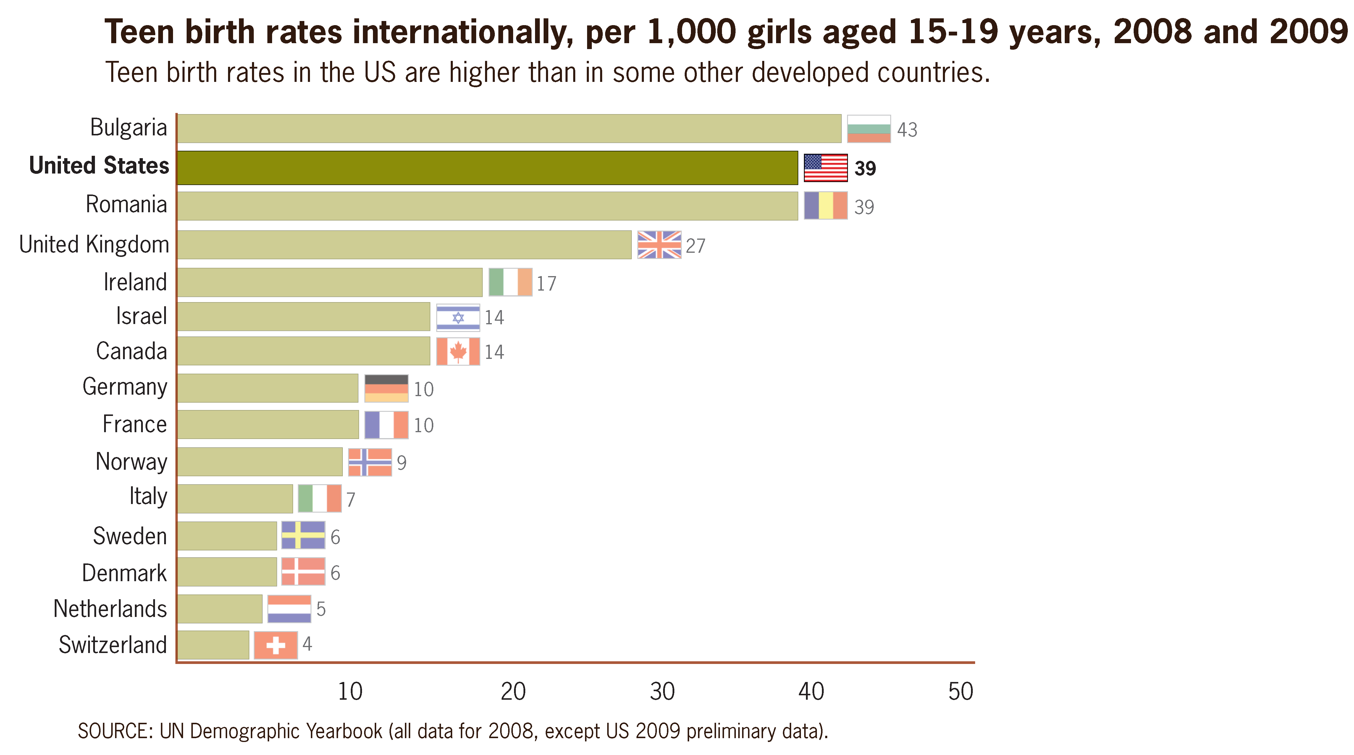 Teen birth rates internationally, per 1000 girls aged 15-19 2008